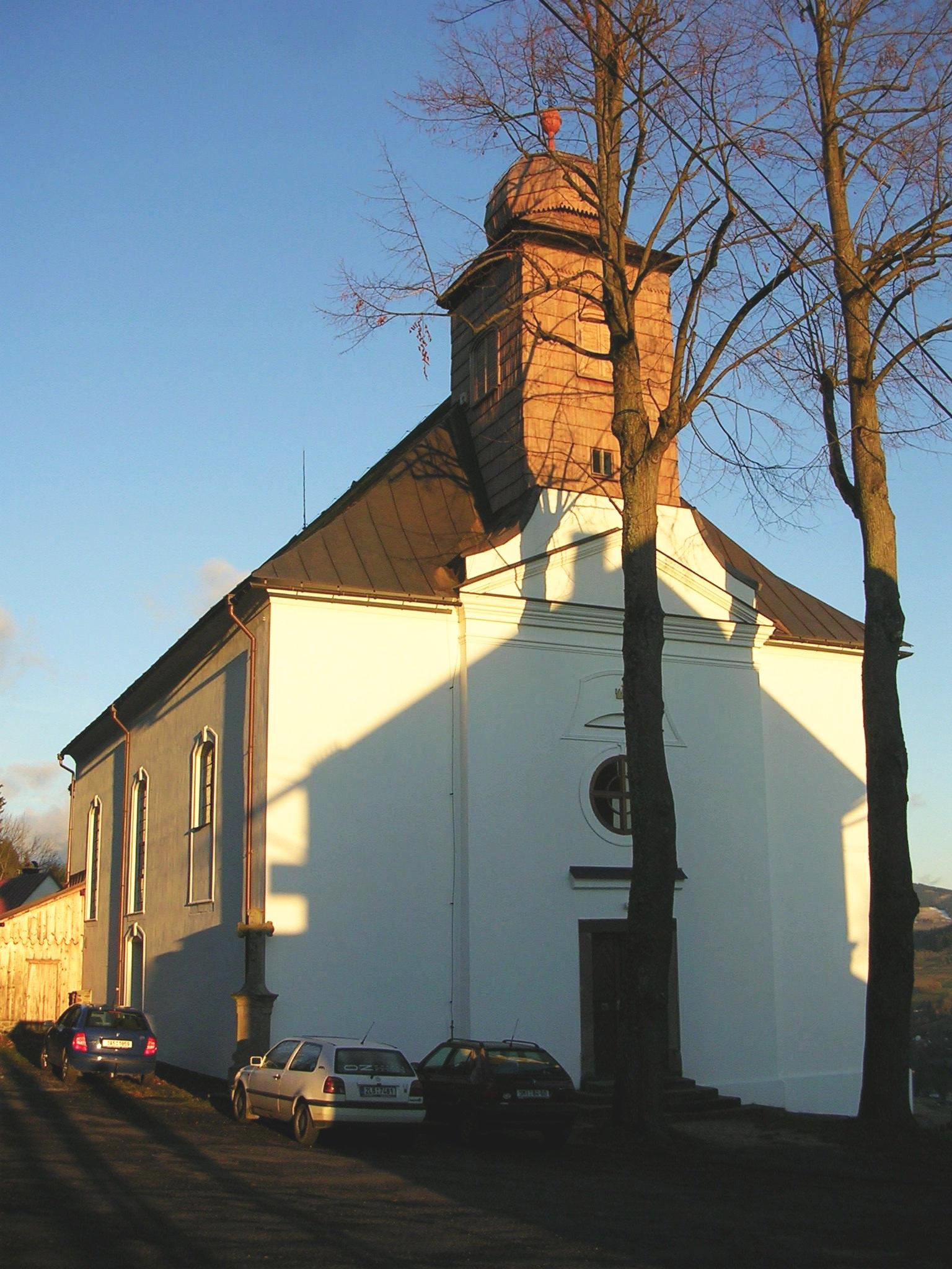 Paseky nad Jizerou, the Czech Republic. Saint Wenceslas Church.